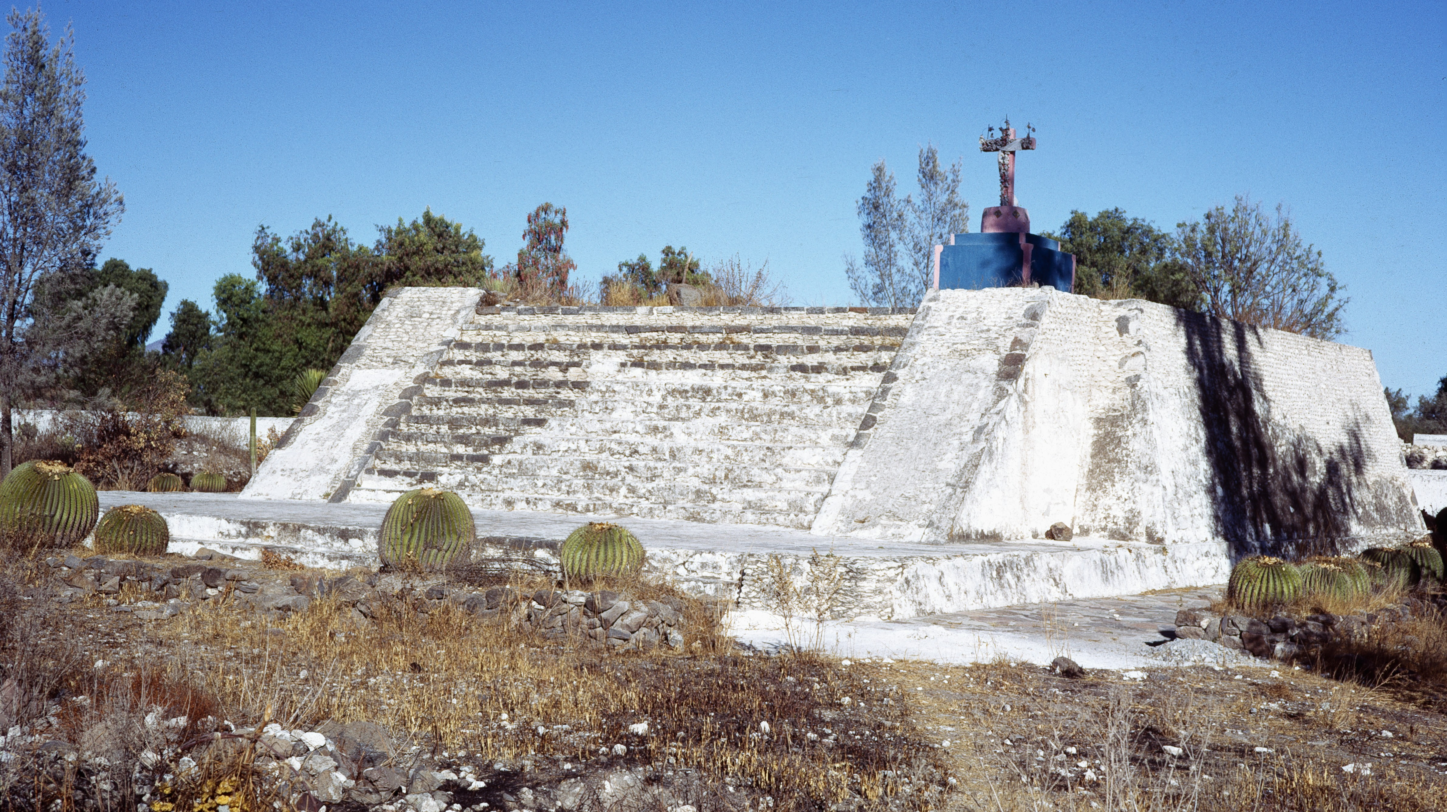 Mixquiahuala, Hidalgo, Mexico: pyramid in cementery